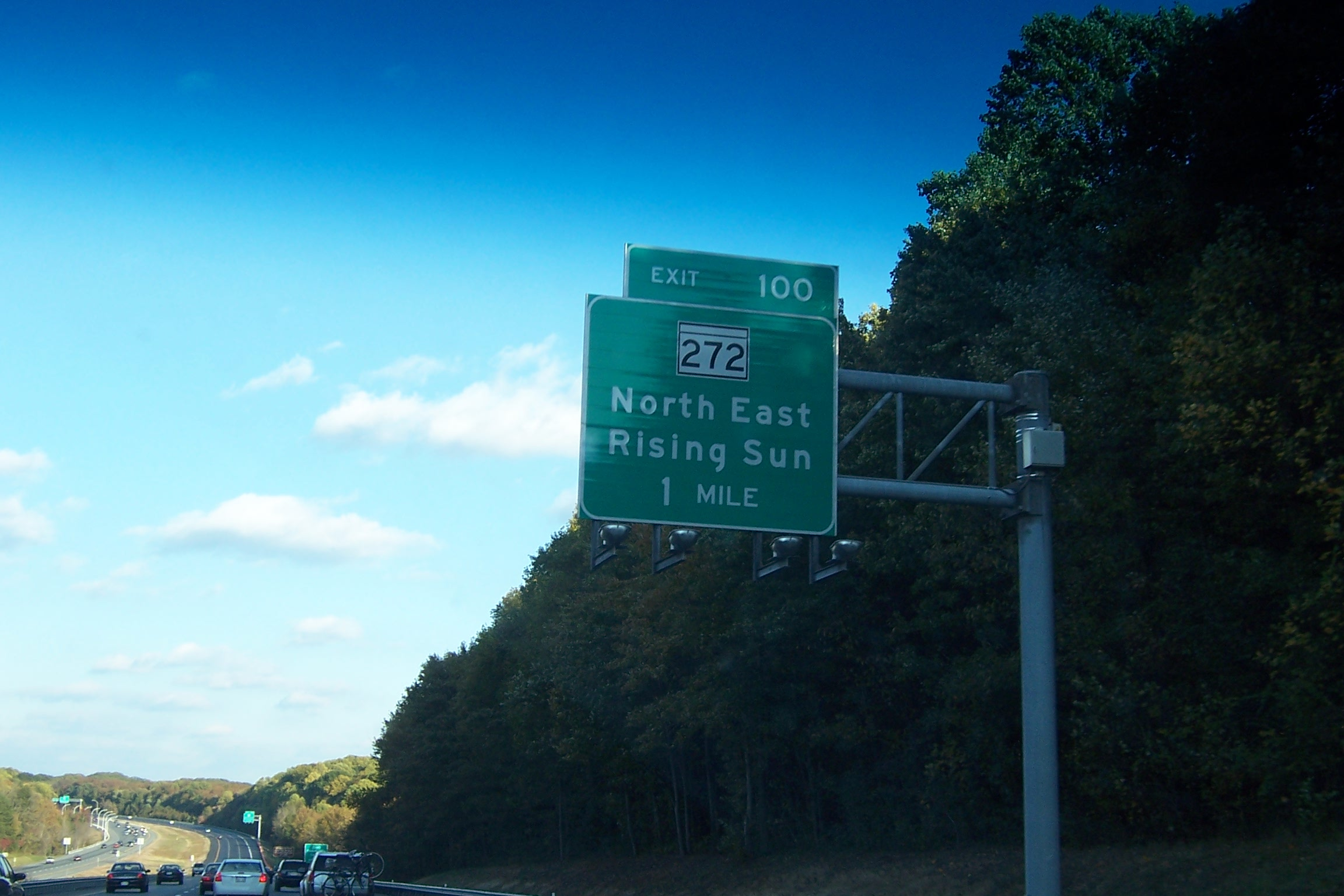 The North East Rising Sun exit off I-95 in Maryland. Taken by me, 29 October 2005.